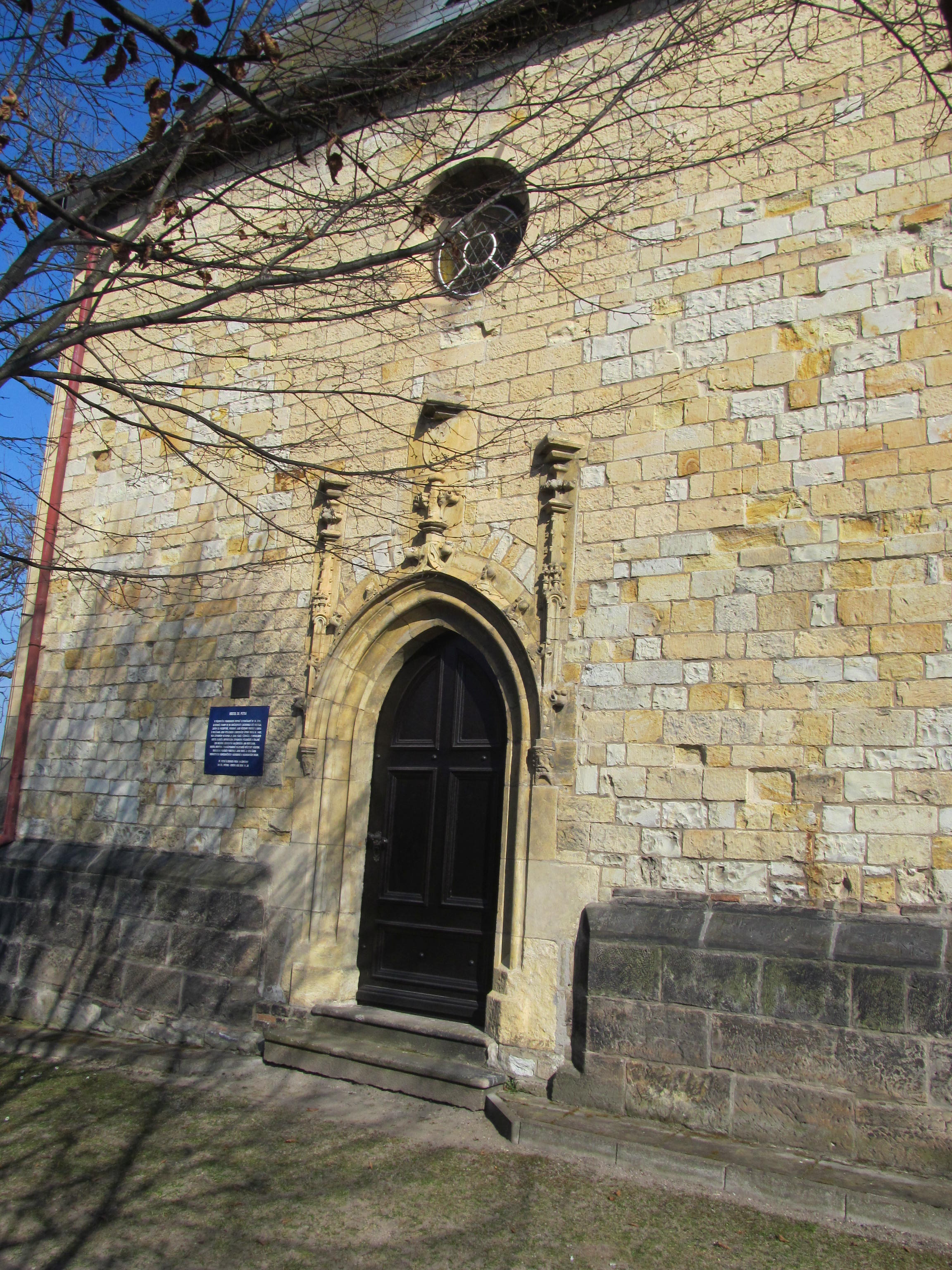 Church of Saint Peter in Louny - west frontage